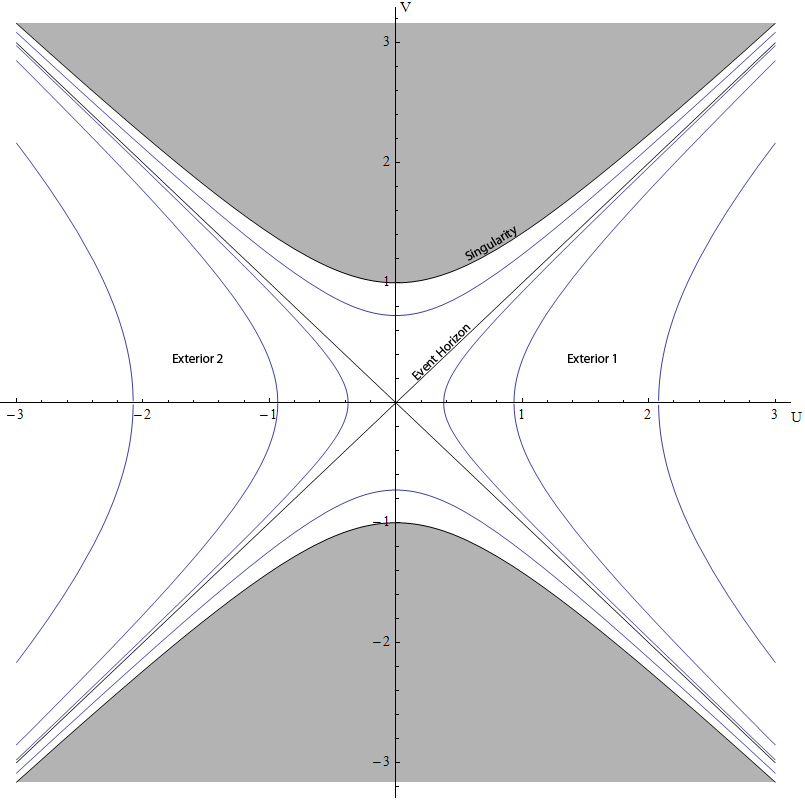 Kruskal-Szekeres-Diagram. Each blue hyperbola represents a set of events of constant radius in Schwarzschild coordinates. Click on the image for better quality!